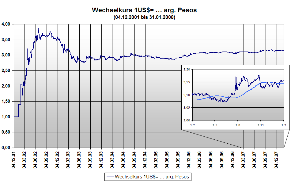 Development of the exchange rate of the Argentine Peso towards the US Dollar starting before the devaluation on 4th of December 2001 going until the present date, 31st of January 2008. Entwicklung des Wechselkurses des argentinischen Peso zum US-Dollar beginnend vor der Abwertung am 4. Dezember 2001 bis heute (31. Januar 2008). Graphic / Graphik: done by myself / selbst erstellt (based on the first version in the German Wikipedia: [1]) Data / Daten: Argentine Central Bank / Argentinische Zentralbank Version: 1.0 other languages: If you want a copy of this graphic in another language, please contact me. Older versions: Image:Exchange rate Wechselkurs USDollar arg Peso 04 12 2001 bis 27 07 2005.png Image:Exchange rate Wechselkurs USDollar arg Peso 04 12 2001 bis 06 02 2006.png Image:Exchange rate Wechselkurs USDollar arg Peso 04 12 2001 bis 18 10 2006.png Image:Exchange rate Wechselkurs USDollar arg Peso 04 12 2001 bis 14 09 2007.png